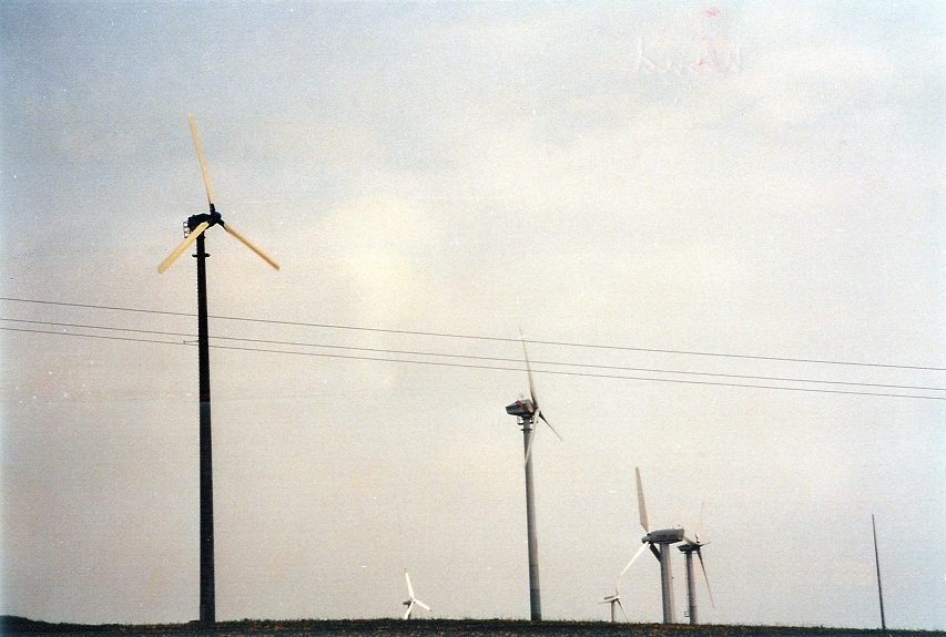 Wind turbines in the Windenergiepark Vogelsberg, the first german wind farm in the inland, in May 1991. From the left: Krogmann 15/50, Enercon E-17, Hüllmann FHW 100, AN Bonus 150/30. In the background: Husumer Schiffswerft HSW 250, Tacke TW 250. Right is the measurement tower in the test field of the Fraunhofer Institutes ISET and LBF. The wind farm was built near Hartmannshain in the community of Grebenhain, Hesse, Germany.